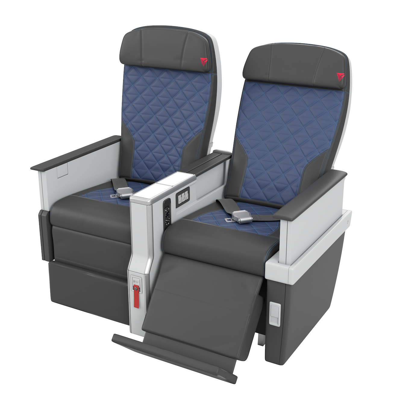 A350: Interior - Premium Select